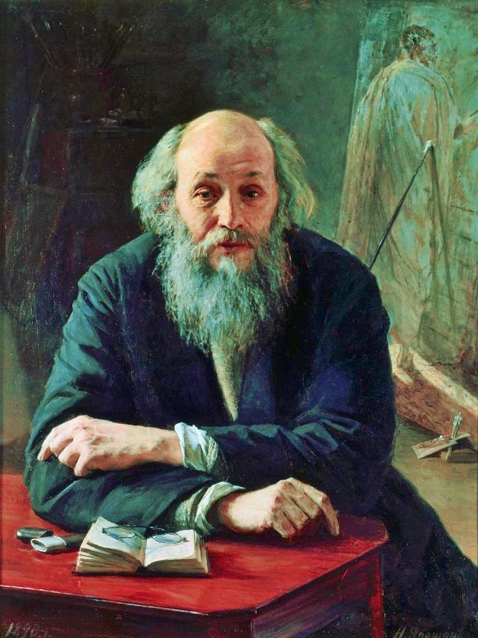 Portrait of Nikolaj Nikolajewitsch Ge